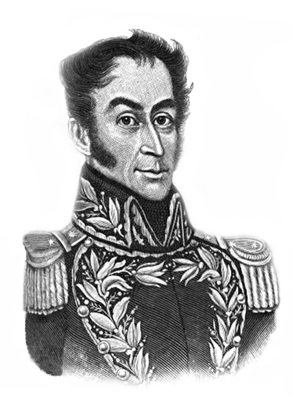 Portrait of Simón Bolívar (1783-1830).